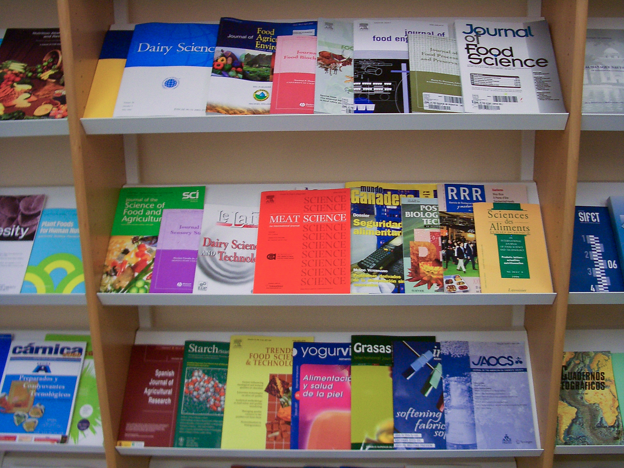 The library of the University of the Basque Country (Vitoria-Gasteiz) receives an impressive selection of scientific journals.